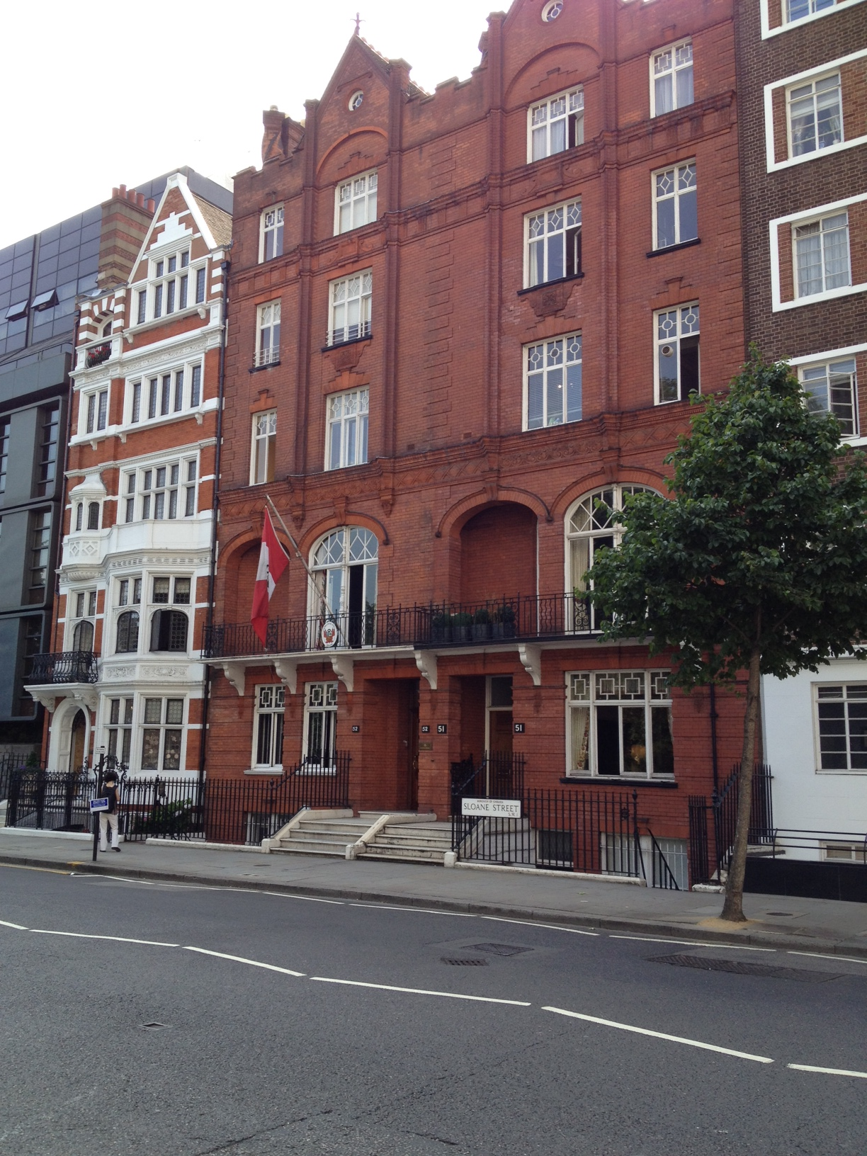 Embassy of Peru in London